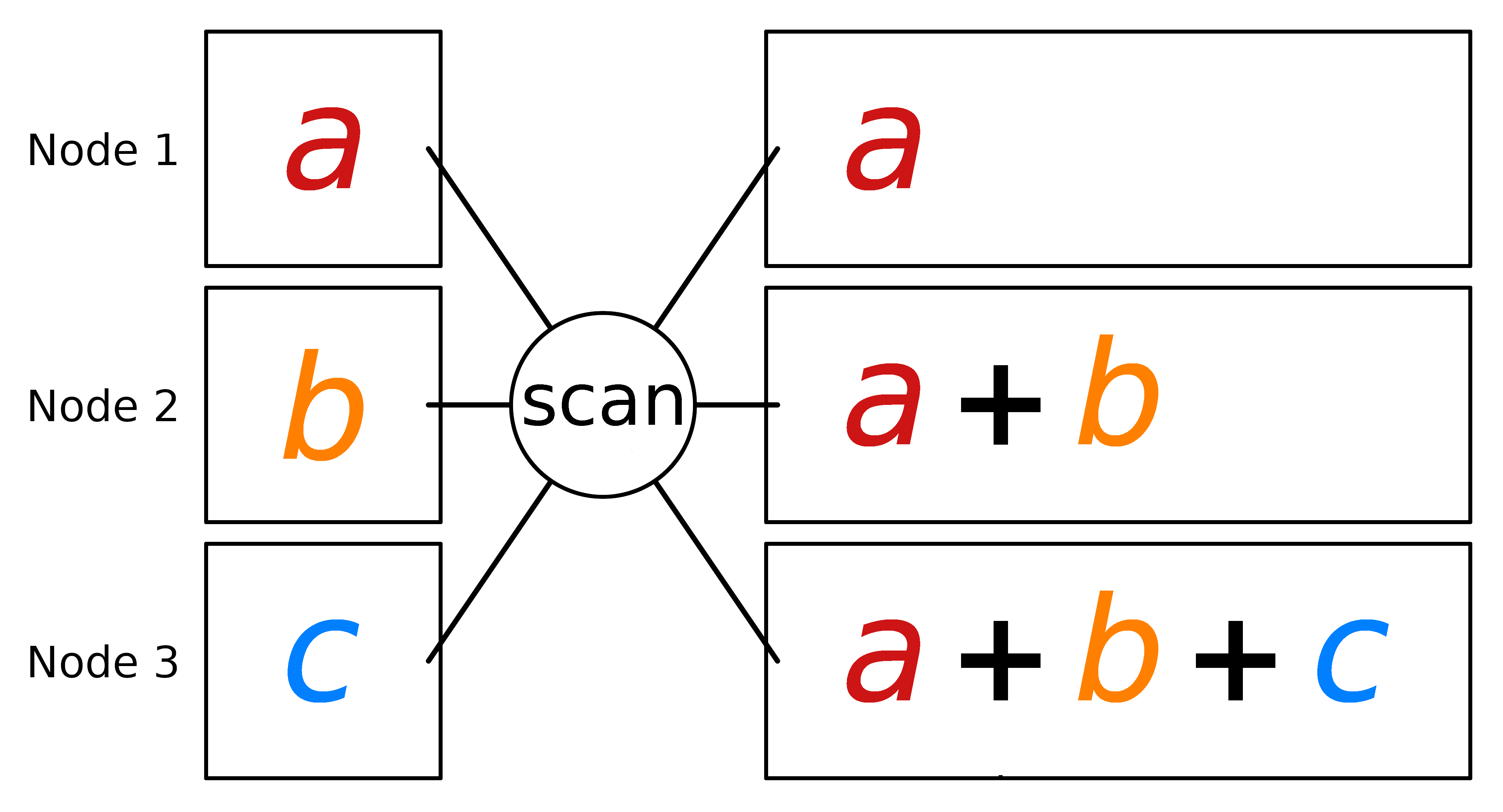 A prefix sum is computed from information of each node by an associative operator. Each nodes stores the prefix sum, which corresponds to their node id.